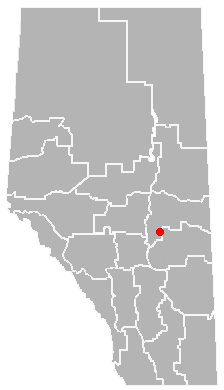 Location of Kelsey, Alberta